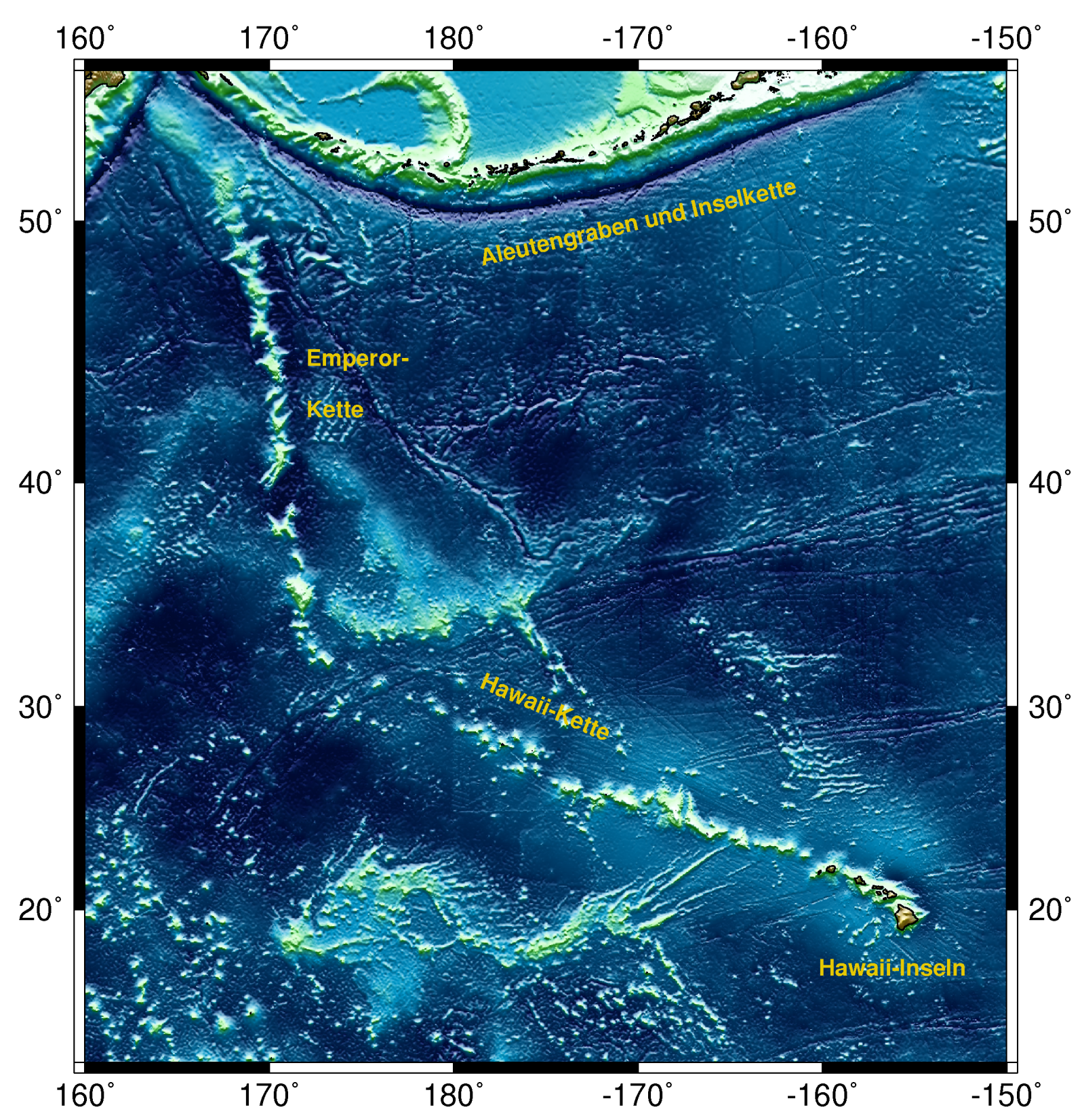 Map of the Hawaii-Emperor seamount chain with seafloor topography